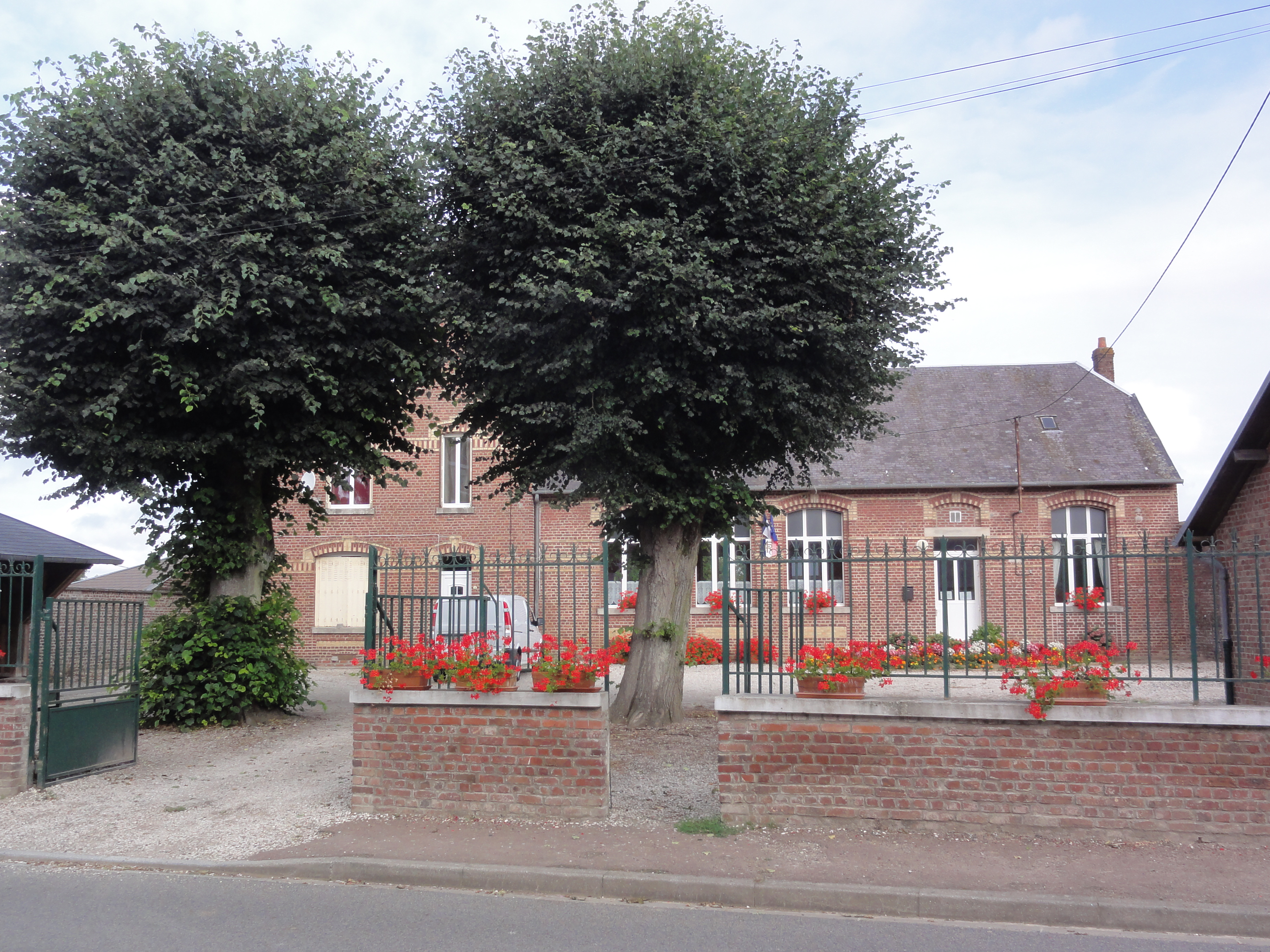 Attilly (Aisne) mairie